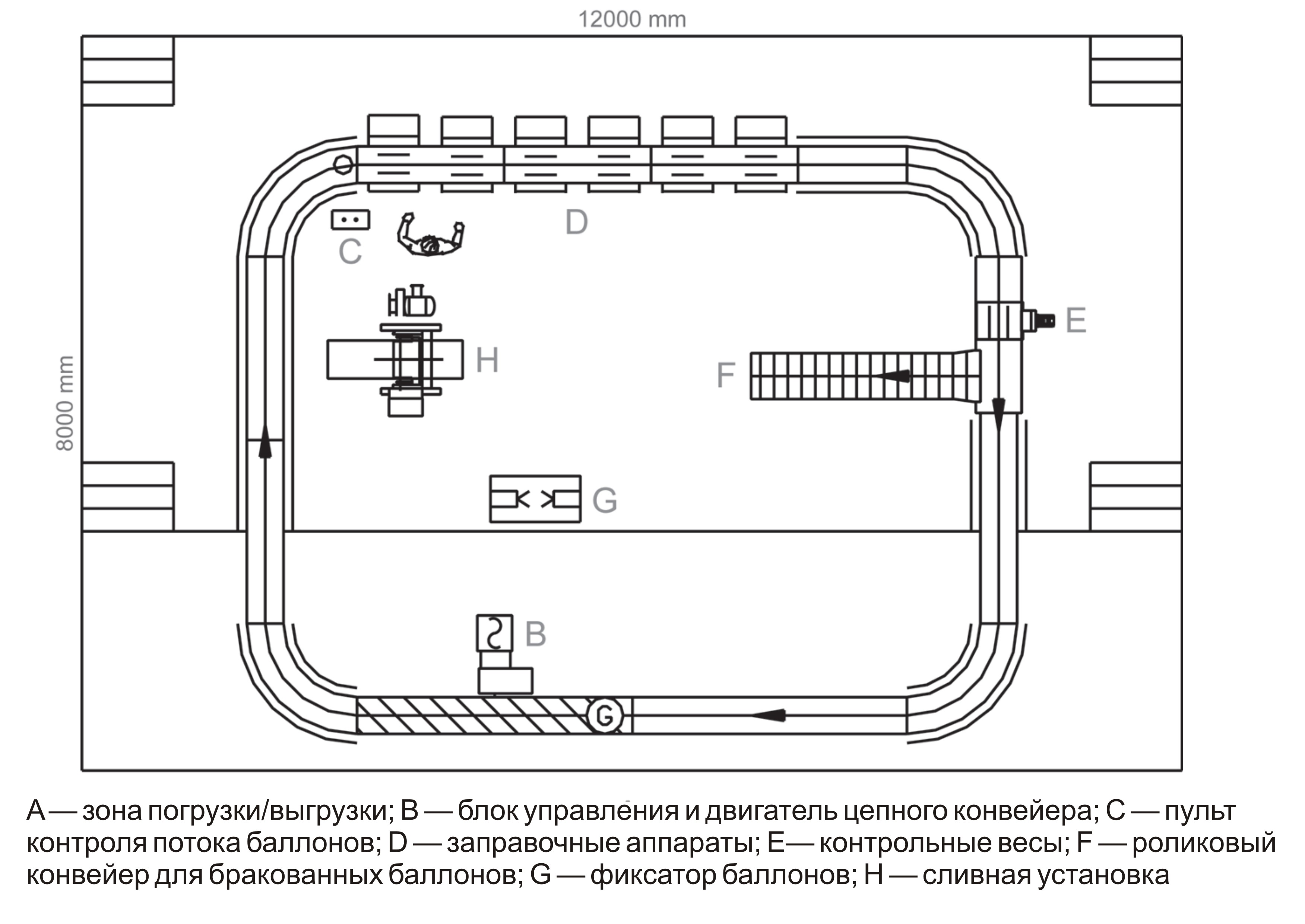 Пример линейной заправочной системы с заправочными аппаратами в ряд на цепном конвейере.